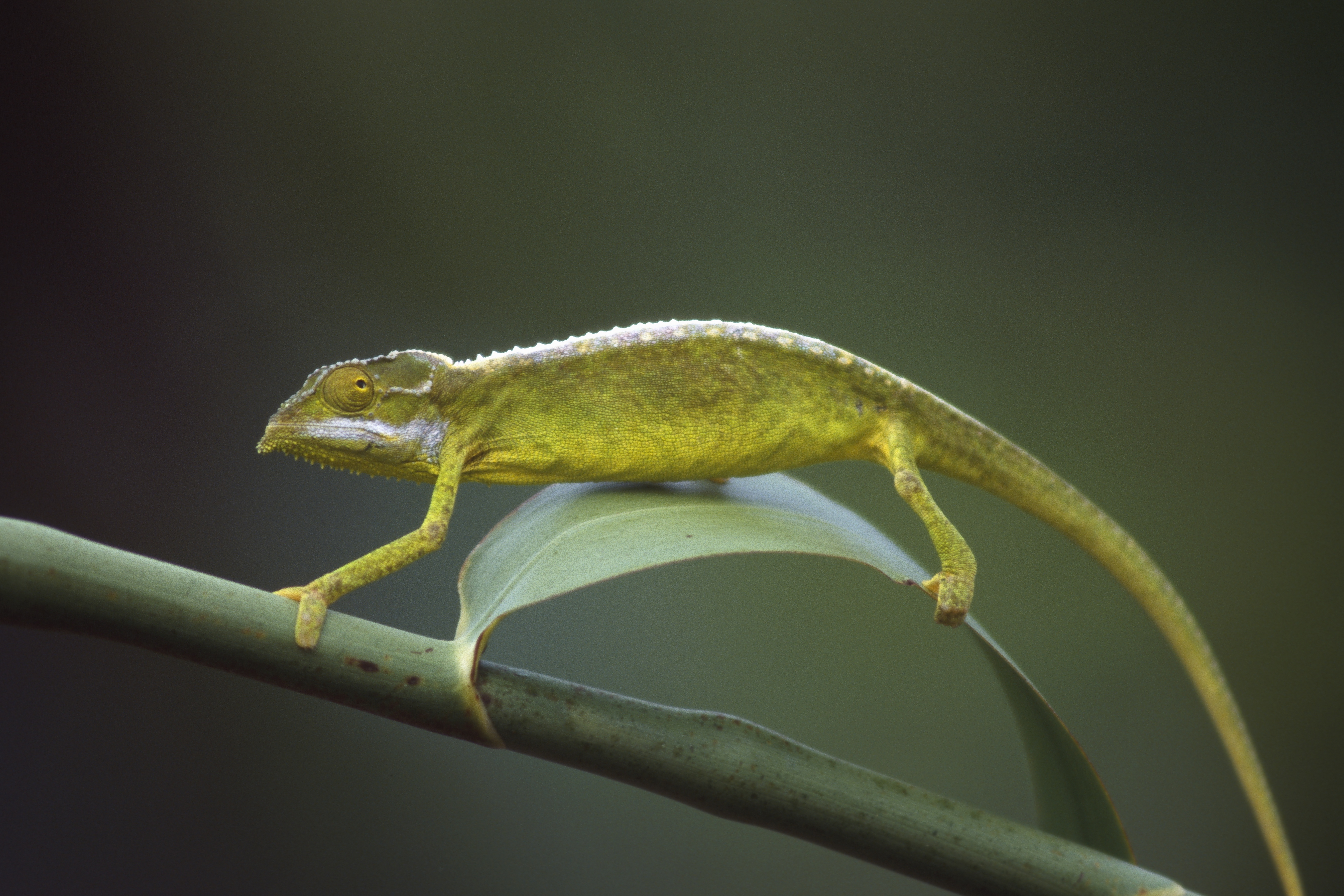 Calumma tigris Fond Ferdinand, Praslin, Seychelles